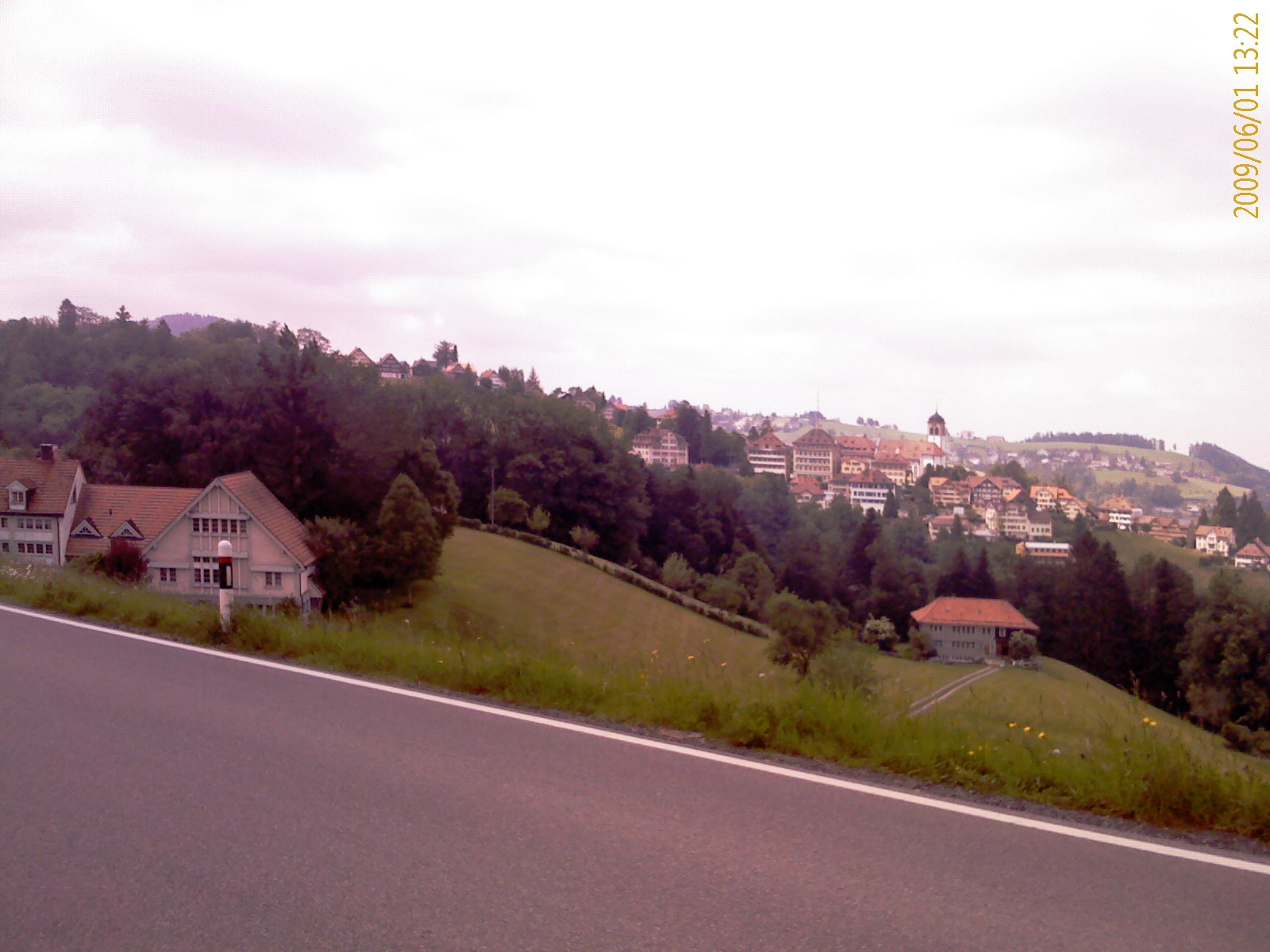 Trogen seen from Linsenbühl, canton of Appenzell Ausserrhoden, SwitzerlandEsperanto: Trogen vidita de Linsenbühl, Kantono Apencelo Ekstera, Svislando